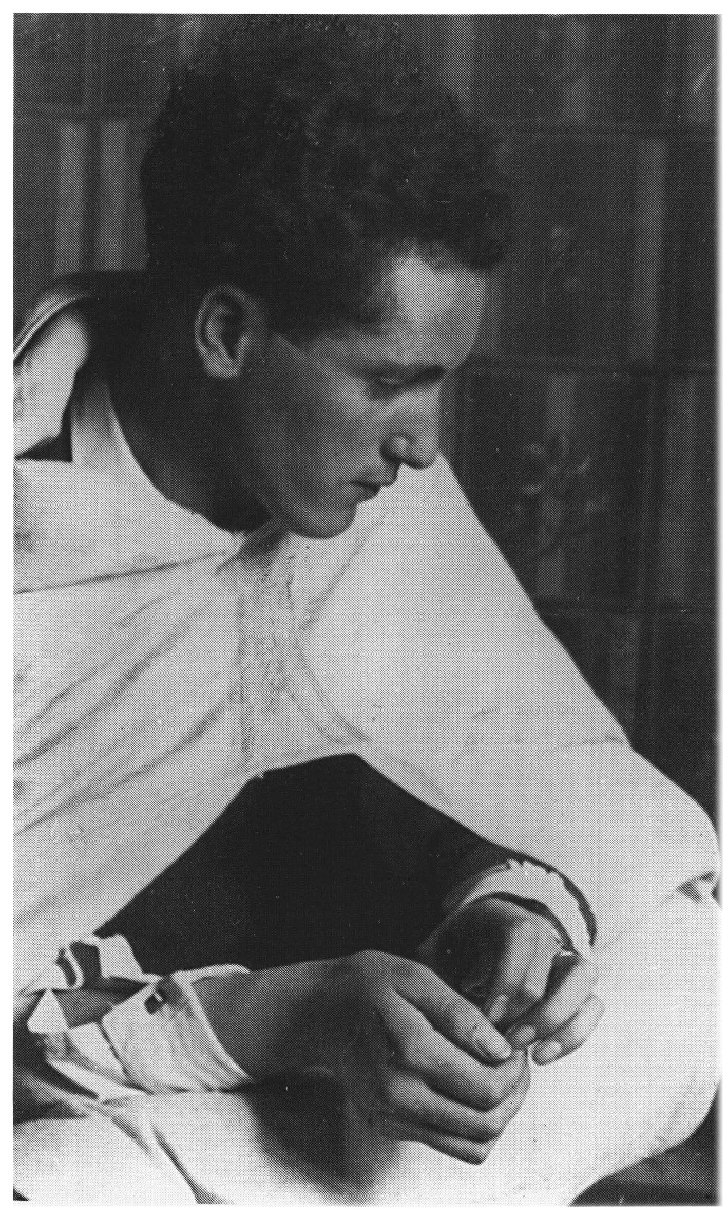 Jean Amrouche wearing a burnous